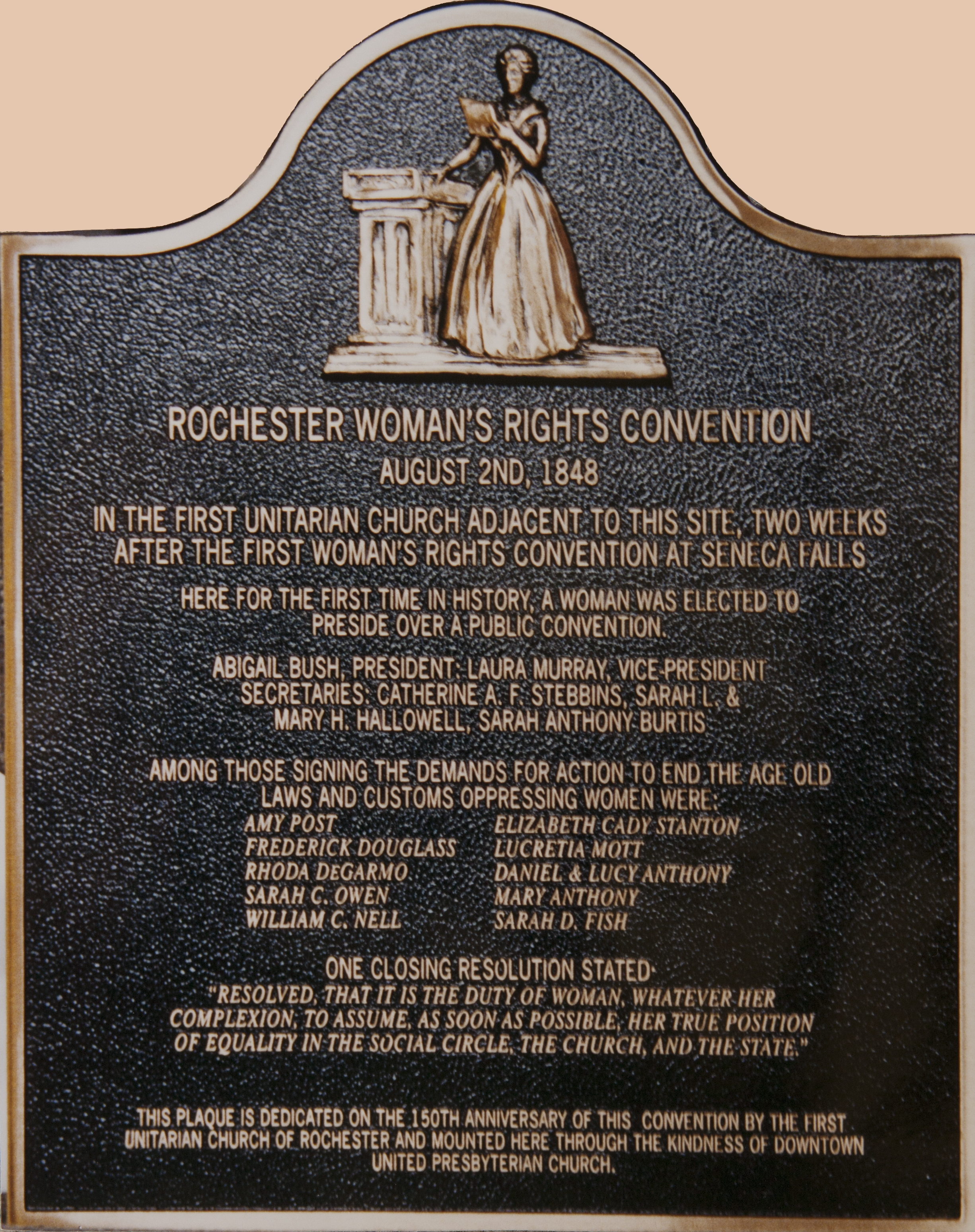 Historical plaque commemorating the Rochester Woman's Rights Convention at the First Unitarian Church of Rochester, New York, in 1848 approximately two weeks following the first Woman's Rights Convention in Seneca Falls, New York. The plaque was dedicated on the 150th anniversary of the convention. It is mounted on the Downtown United Presbyterian Church of Rochester, which is adjacent to the site of the First Unitarian church at that time. Colleen Hurst, historian of First Unitarian at that time, initiated the project and designed the plaque.